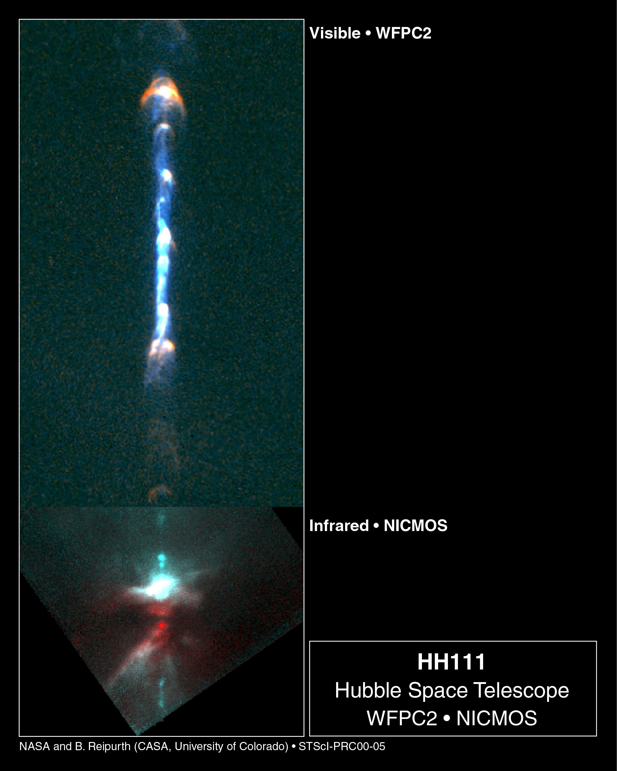 This composite image, made with two cameras aboard NASA's Hubble Space Telescope, shows a pair of 12 light-year-long jets of gas blasted into space from a young system of three stars. The jet is seen in visible light, and its dusty disk and stars are seen in infrared light. These stars are located near a huge torus, or donut, of gas and dust from which they formed. This torus is tilted edge-on and can be seen as a dark bar near the bottom of the picture. Apparently, a gravitational brawl among the stars occurred a few thousand years ago and kicked out one member (on the left edge of the bright blob above the disk). As a result, the two other stars were joined together as a tight binary pair and flew off in the opposite direction, and appear as a red blob below the disk. The huge jet comes from one of the stars in this tight binary pair. The star spews out streams of gas in opposite directions, like water from a garden hose. It is not a smooth flow, but rather happens episodically, creating lumps of gas that fly across space at over one million miles per hour. These gaseous cannonballs catch up with and "rear-end" slower moving blobs, creating a pattern that resembles a string of Christmas lights embedded in the jet. The visible-light image was taken with Hubble's Wide Field Planetary Camera 2 in Nov. 1998 and the infrared image by Hubble's Near Infrared Camera and Multi-Object Spectrometer in Mar. 1998. The disk and associated stars are embedded in a large dark cloud and are only visible at infrared wavelengths.